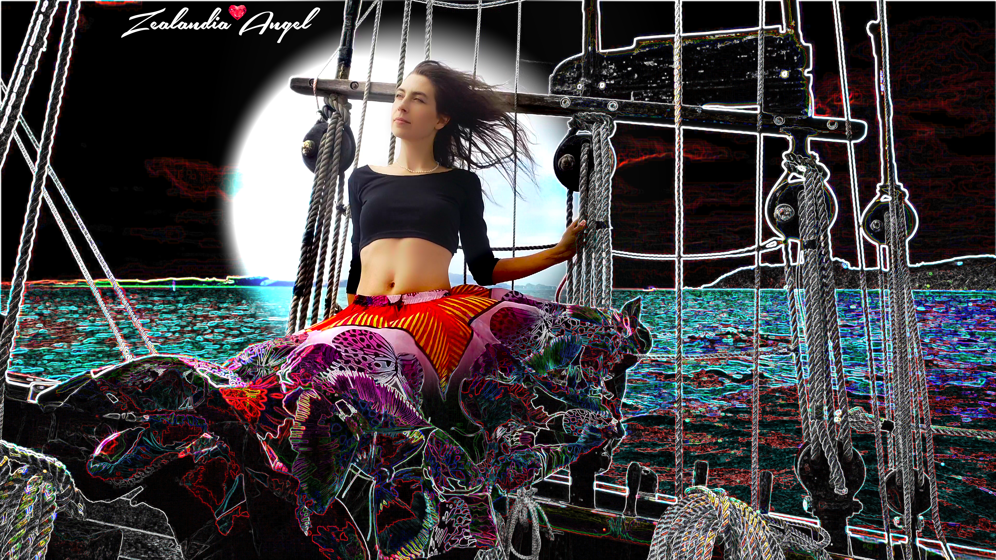 This is a cut scene from Zelandia Angel's musical Virgo De La Mar. She is sailing a gaff-rigged topsail schooner 'R. Tucker Thompson.' The ship is a replica of schooners that were popular in late 1800's early 1900's.